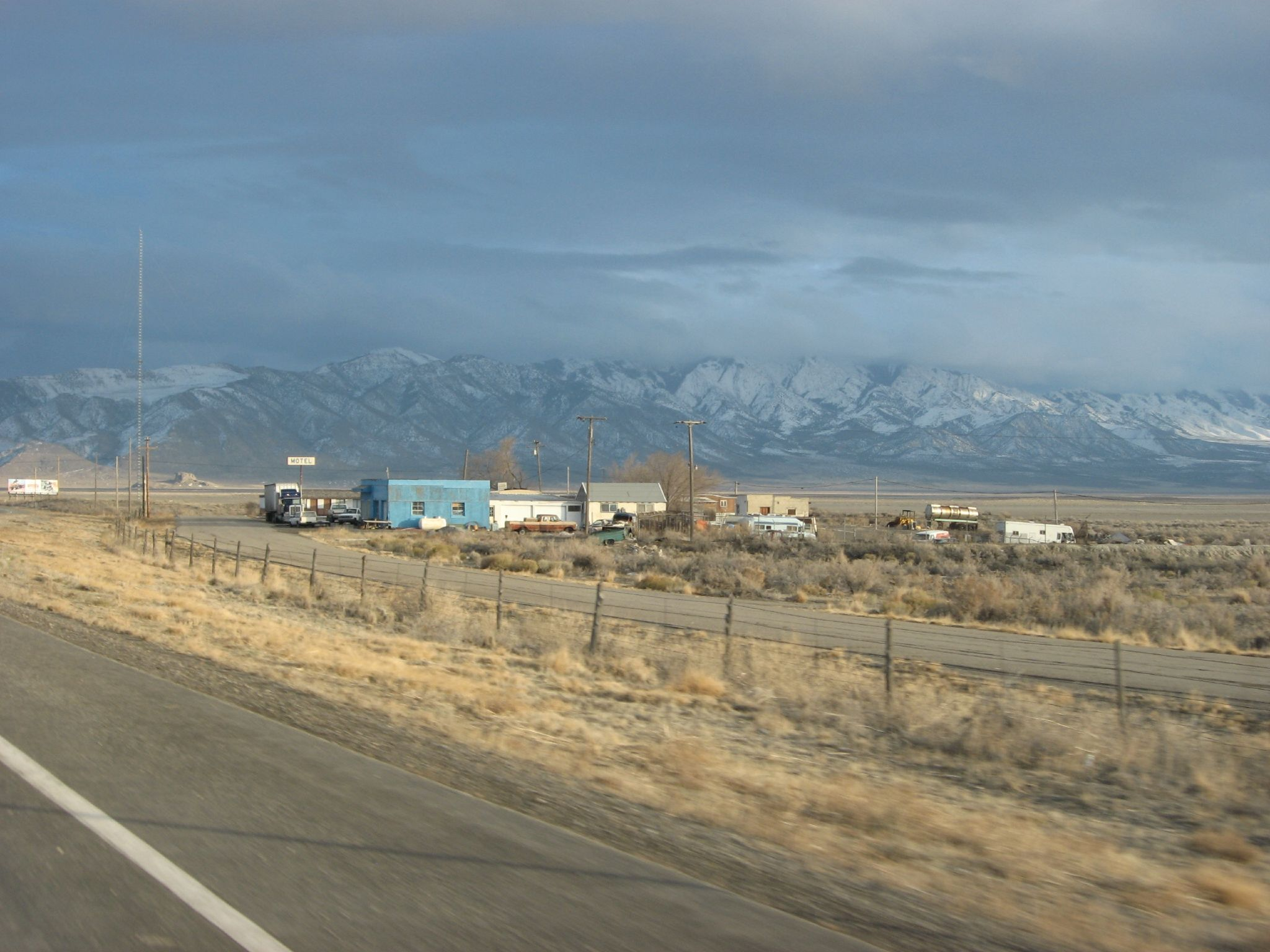 Delle, Utah, as viewed from the Interstate 80 eastbound off-ramp. The frontage road in the foreground is one the roads designated as part of Utah State Route 900 (SR-900)